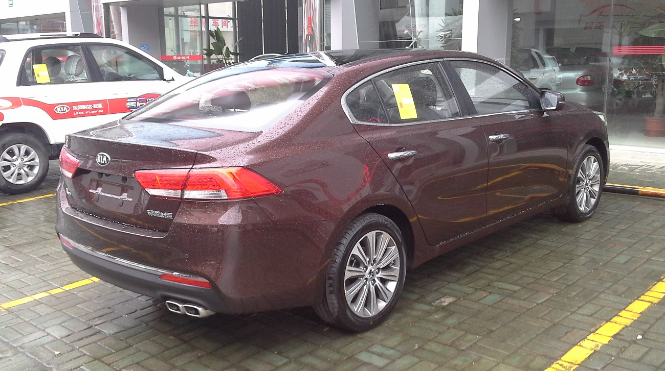 Kia K4 photographed in Shanghai, China.